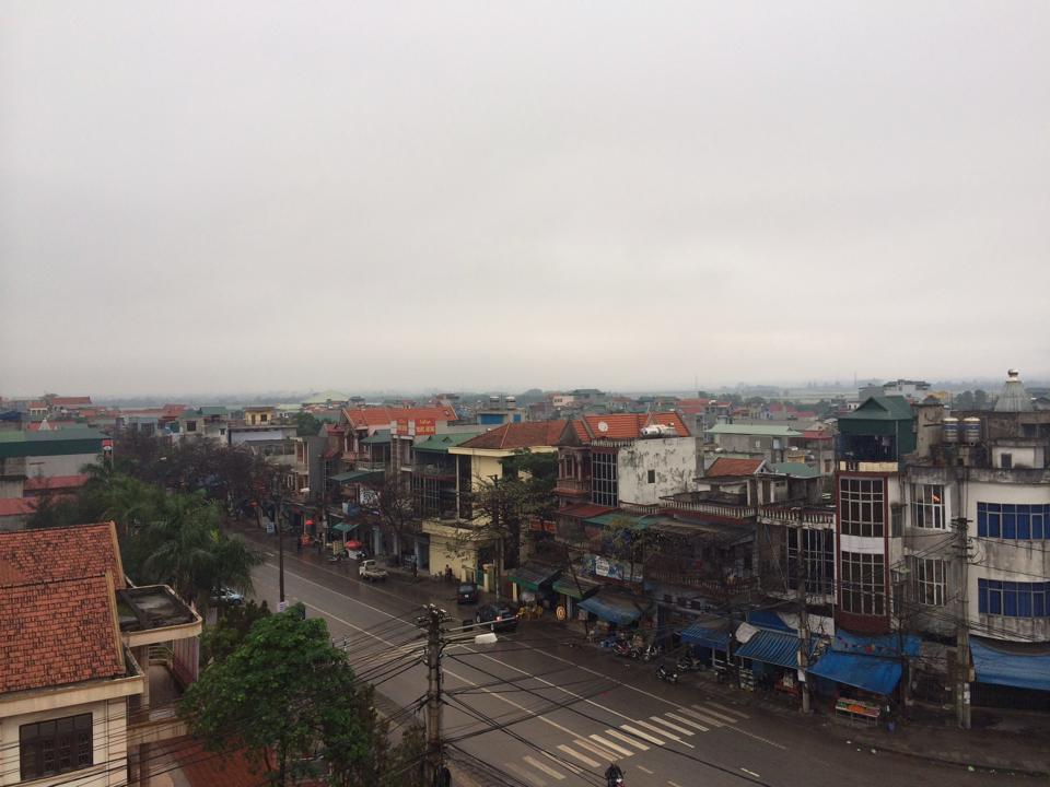 ĐôngTriều